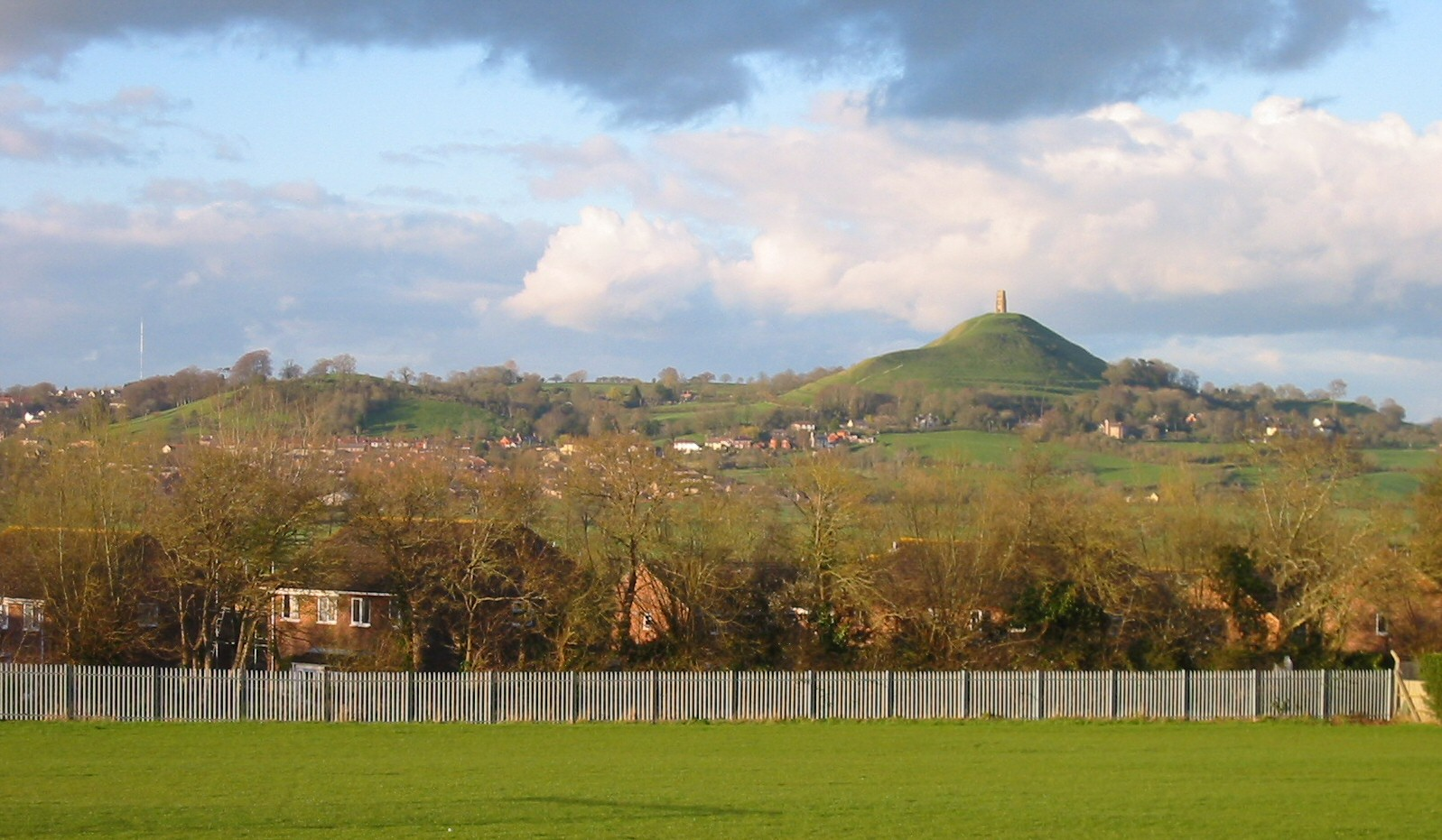 Glastonbury, Somerset, UK seen from the nearby settlement of Street. The town is built on the fringes of hills rising above the Somerset Levels. To the right is Glastonbury Tor and to the left, Wearyall Hill where one of the Glastonbury thorns grows. Most of the town lies behind this hill. Taken by wurzeller on 6 Apr 2004 and hereby published under the terms of the GFDL. Category:Images of England